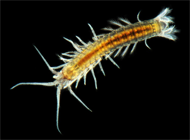 Koonunga allambiensis sp. nov. habitus (Photo Julian Finn, Victorian Museum)